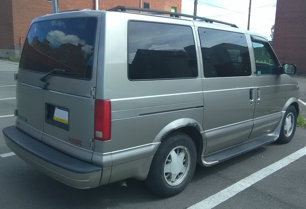 1995-2005 GMC Safari photographed in New Castle, Pennsylvania